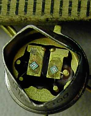 The image shows the transistor chips themselves - 1 by 1 mm. The lines at the top are millimeter spaced. The house they are in are TO39 or TO5 like. Pay attention to the four small bonding wires that are welded on the chips and on the terminals glued in the red-blackish matter. The two small rectangular plates where the chips are placed, are normally the collector terminals.